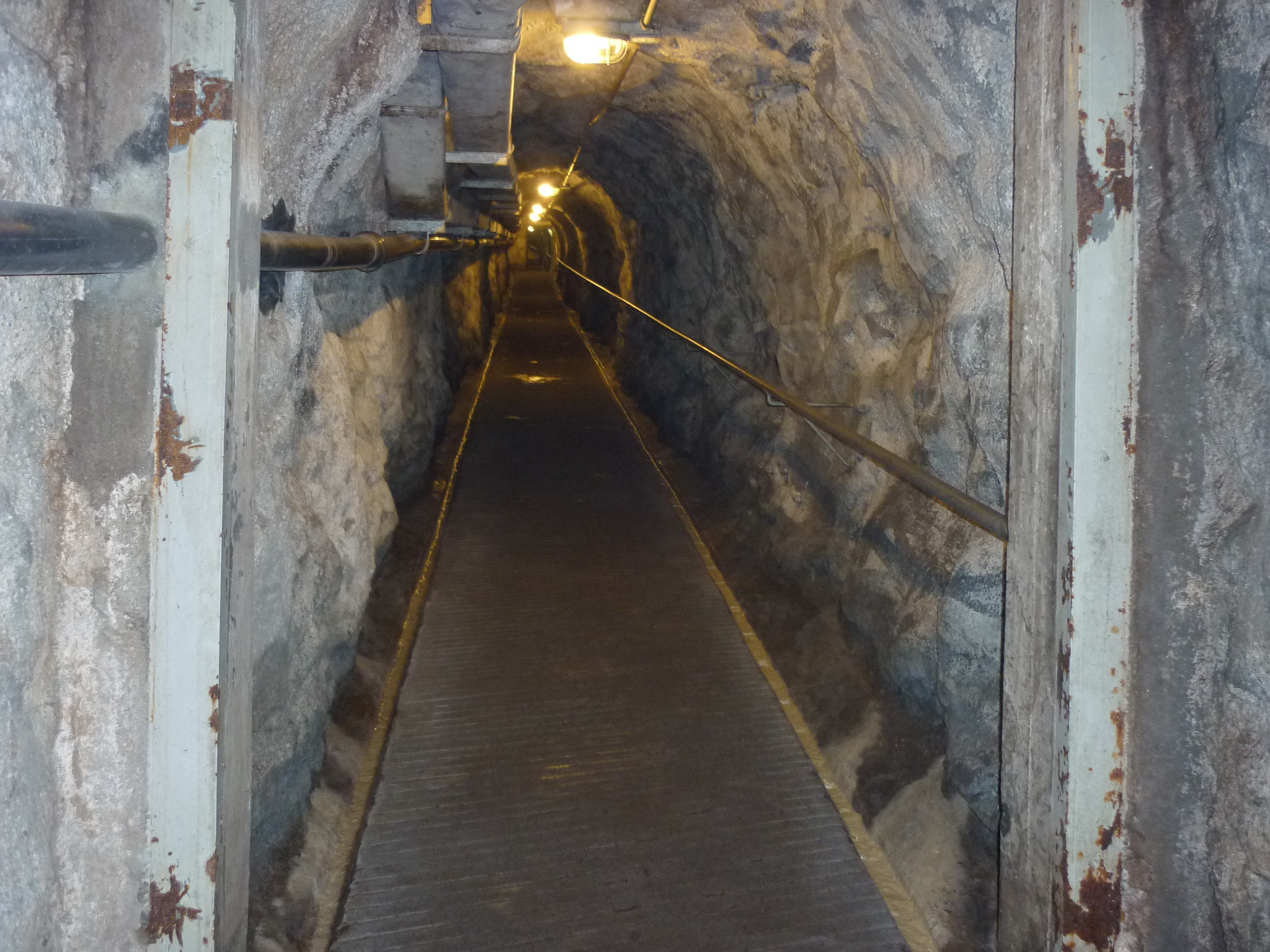 Fort Furkels, Pfäfers SG, Switzerland